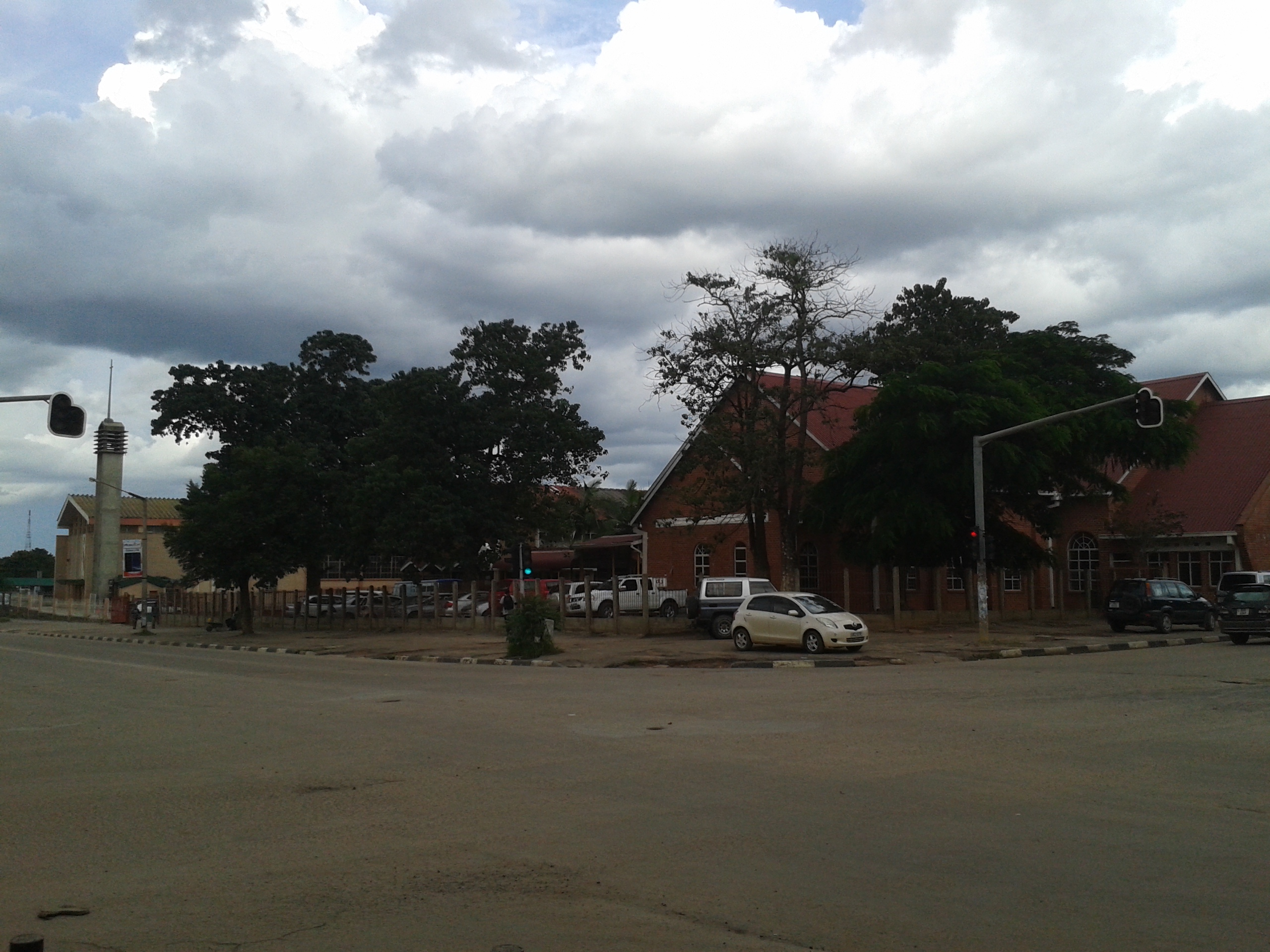 United Church of Zambia, St Margaret Church (right) and Catholic parich of Sacred Heart run by Conventual Franciscans (left)